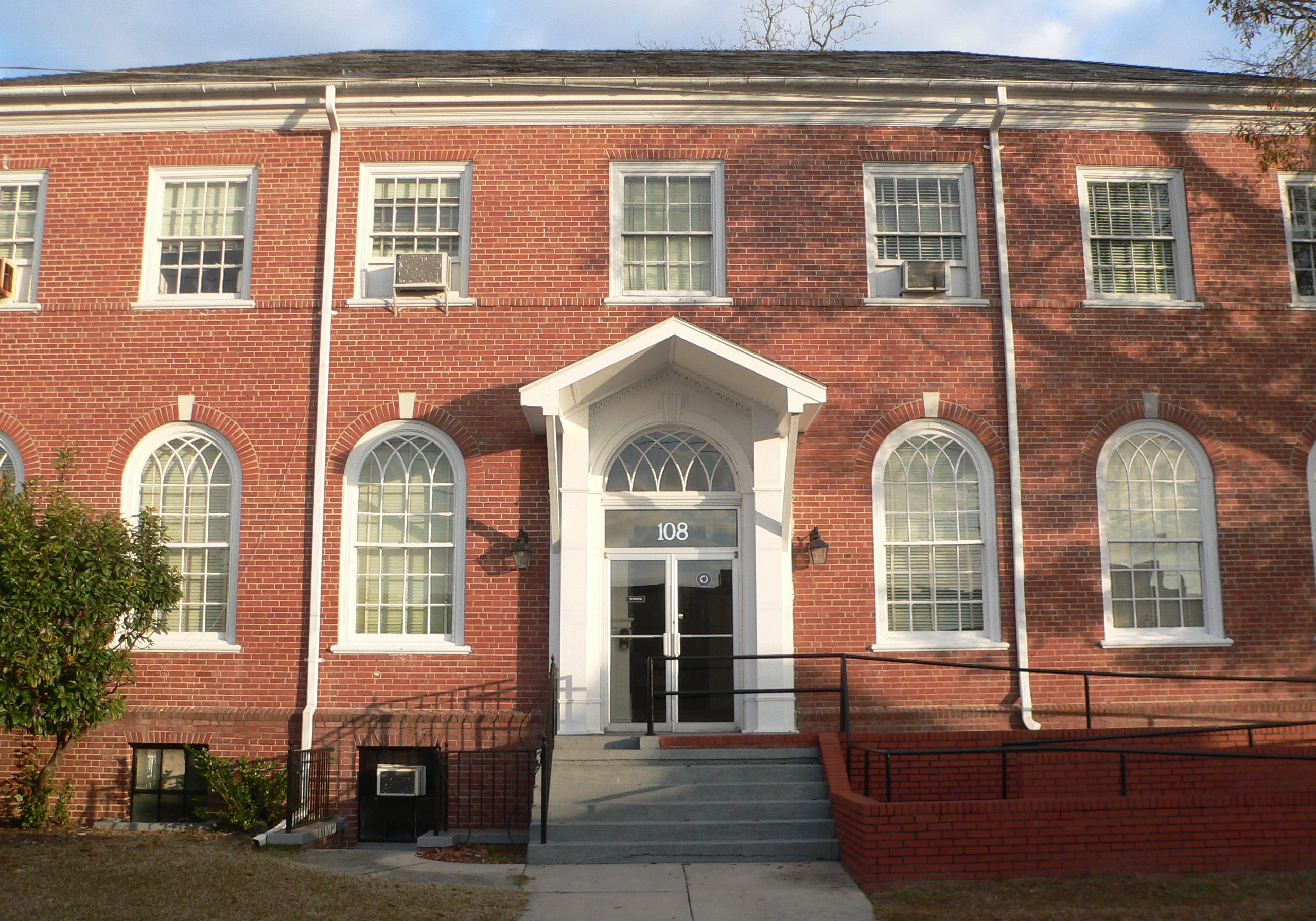 Robeson County Agricultural Building, located at 108 W. 8th Street in Lumberton, North Carolina; central section, seen from the south, from 8th.